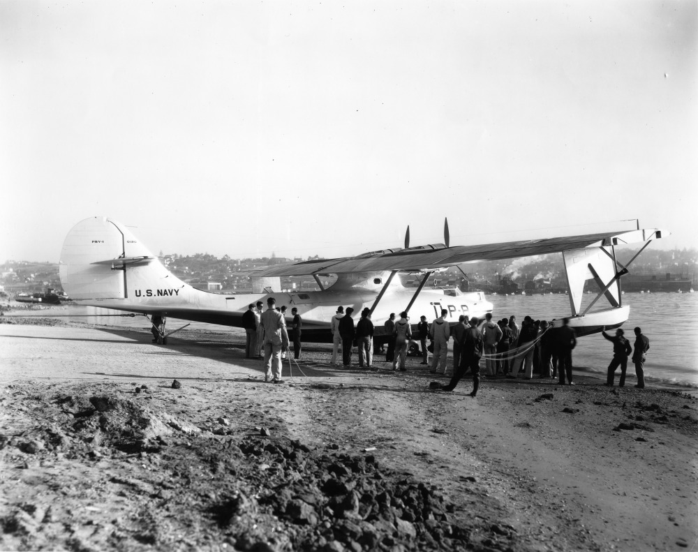 PictionID:41553920 - Title:Consolidated PBY-1 0120 VP-11F 11-P-8 San Diego mfr - Catalog:16_000527 - Filename:16_000527.tif - - - - - - Image from the Ray Wagner Collection. Ray Wagner was Archivist at the San Diego Air and Space Museum for several years and is an author of several books on aviation --- ---Please Tag these images so that the information can be permanently stored with the digital file.---Repository: San Diego Air and Space Museum